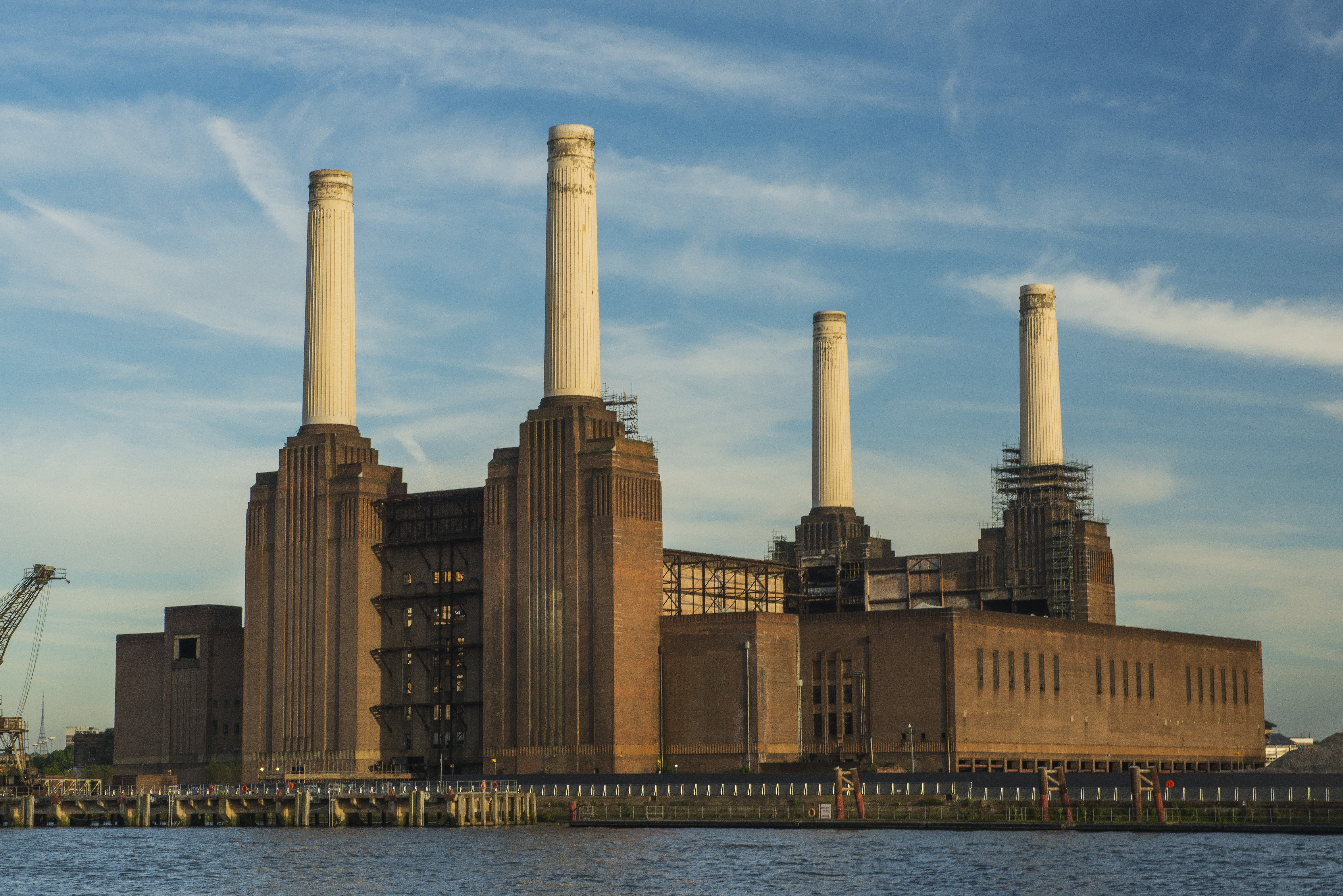 Battersea Power Station